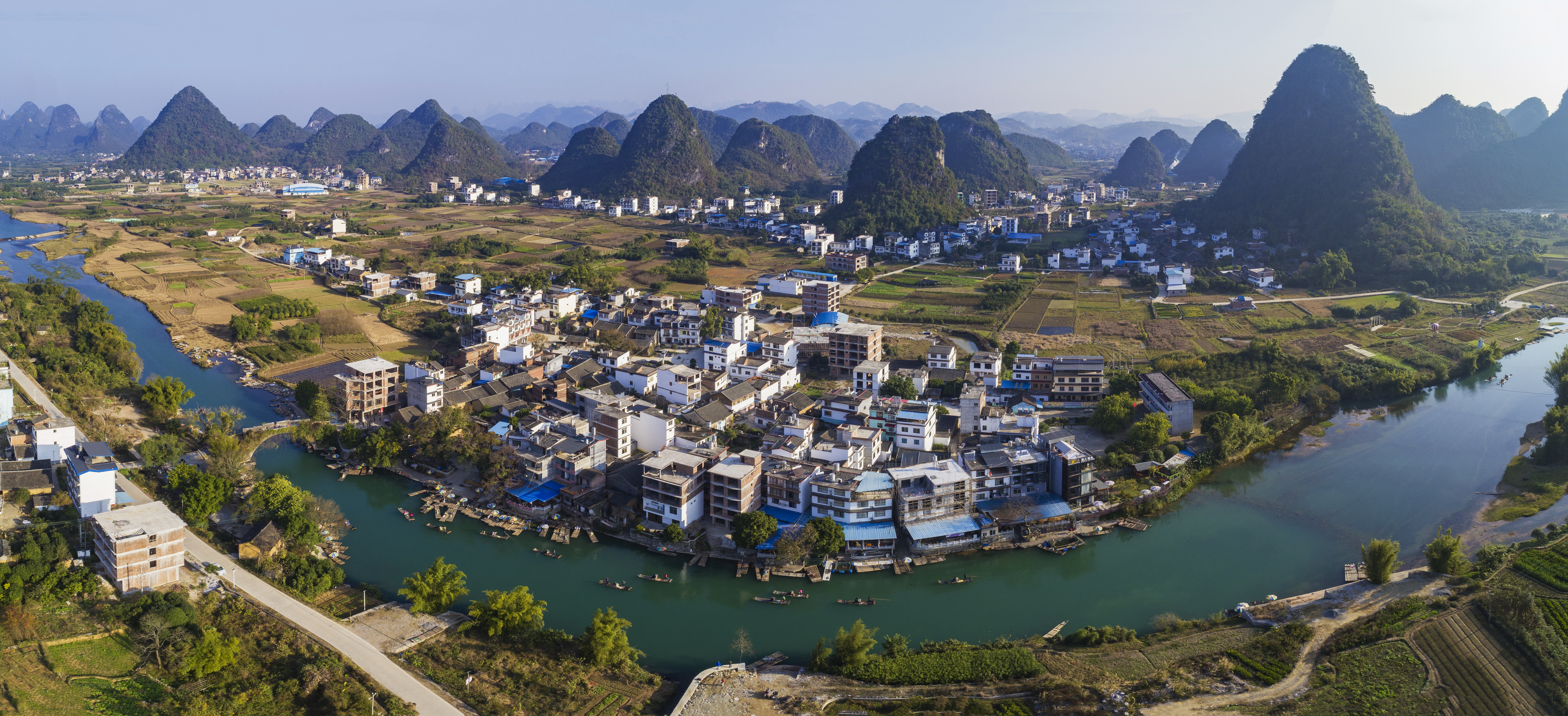 Panoramic photograph of Yangshuo County, near the city of Guilin, Guangxi province, China. The photograph was taken from the air using a drone.